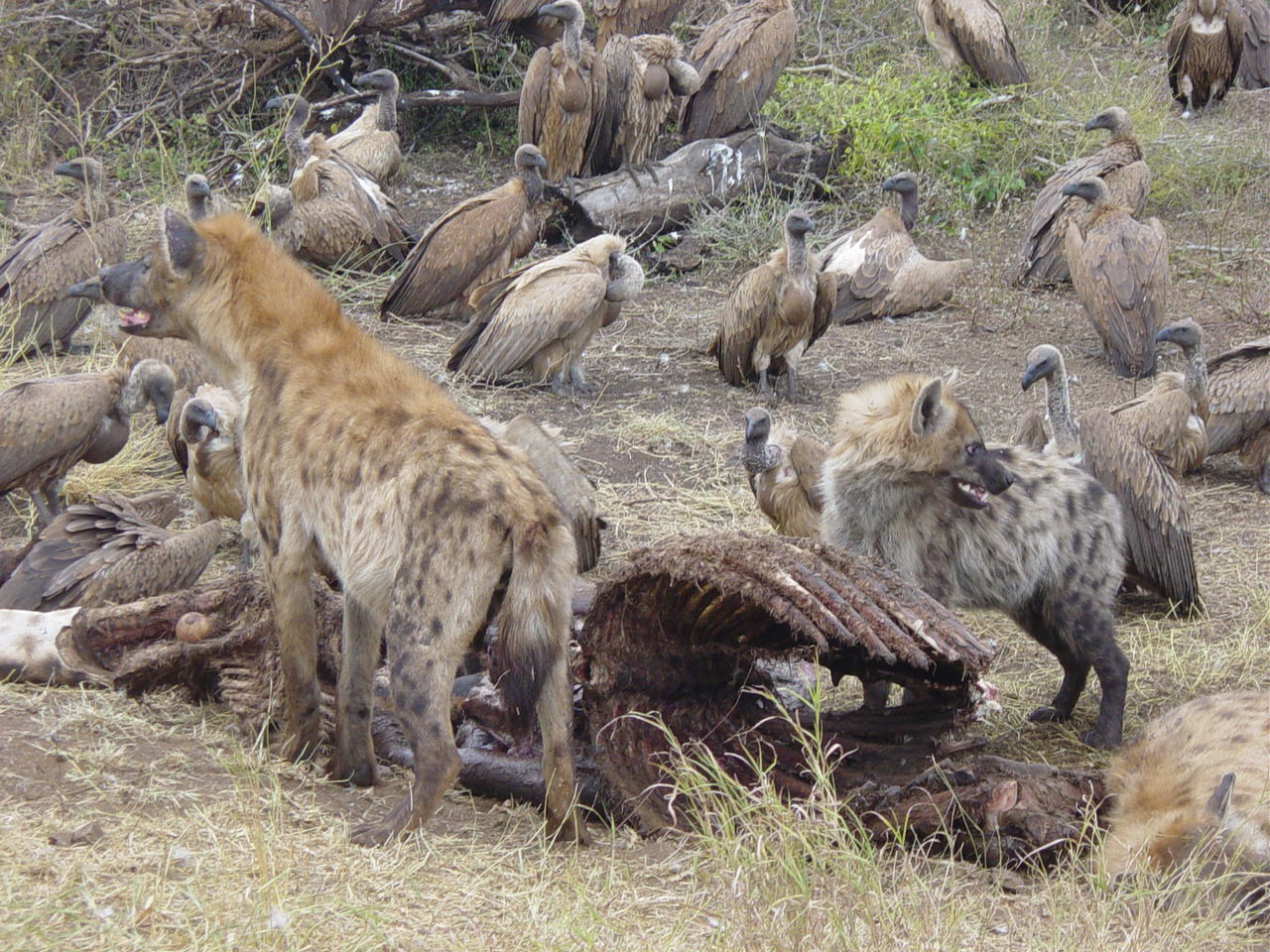 Own work photograph